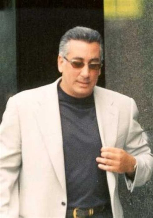 This undated surveillance file photo, released by the U.S. Attorneys Office in New York, shows mob veteran Vincent Basciano, former head of the Bonanno crime family.